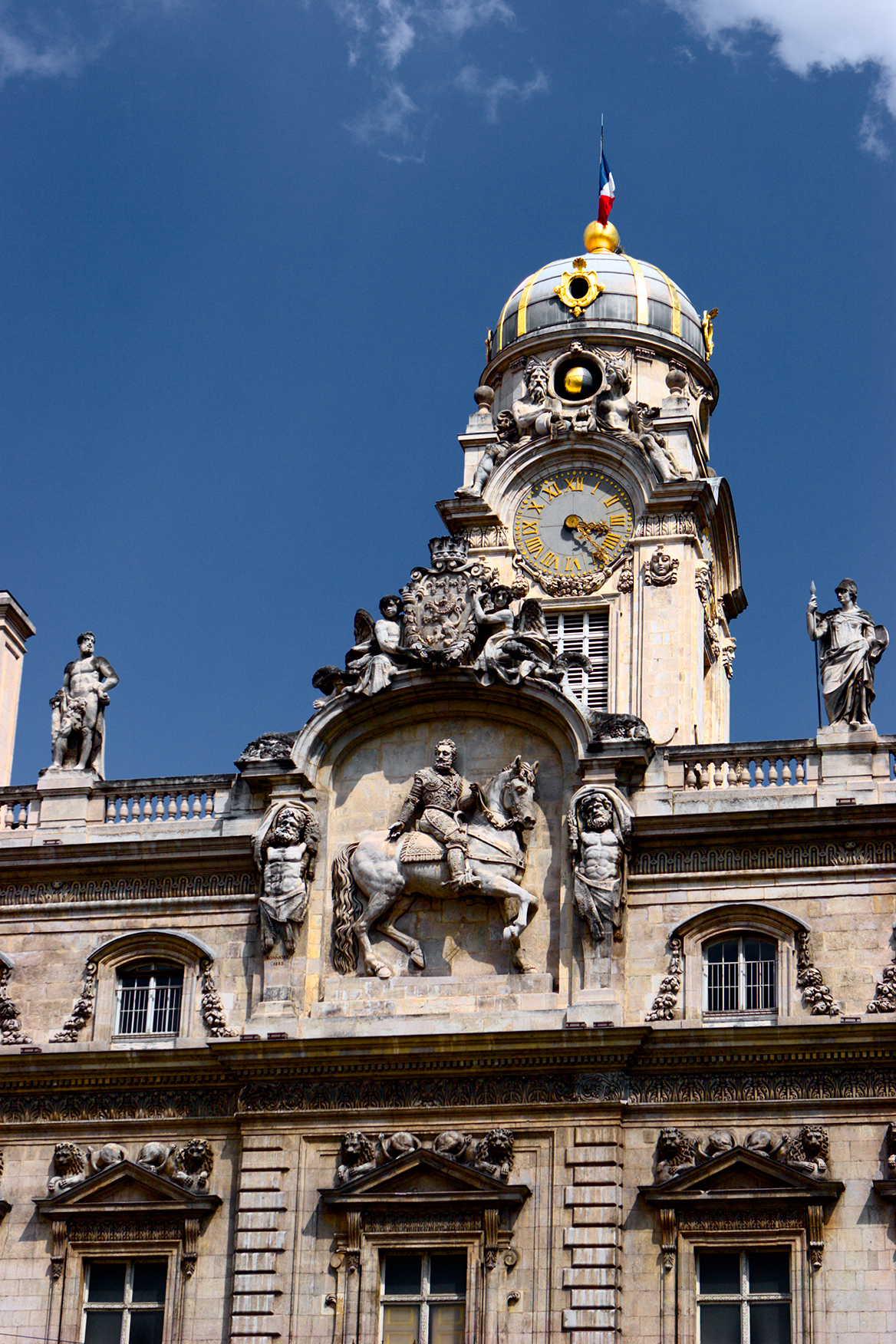 Lyon's 18th century city office.